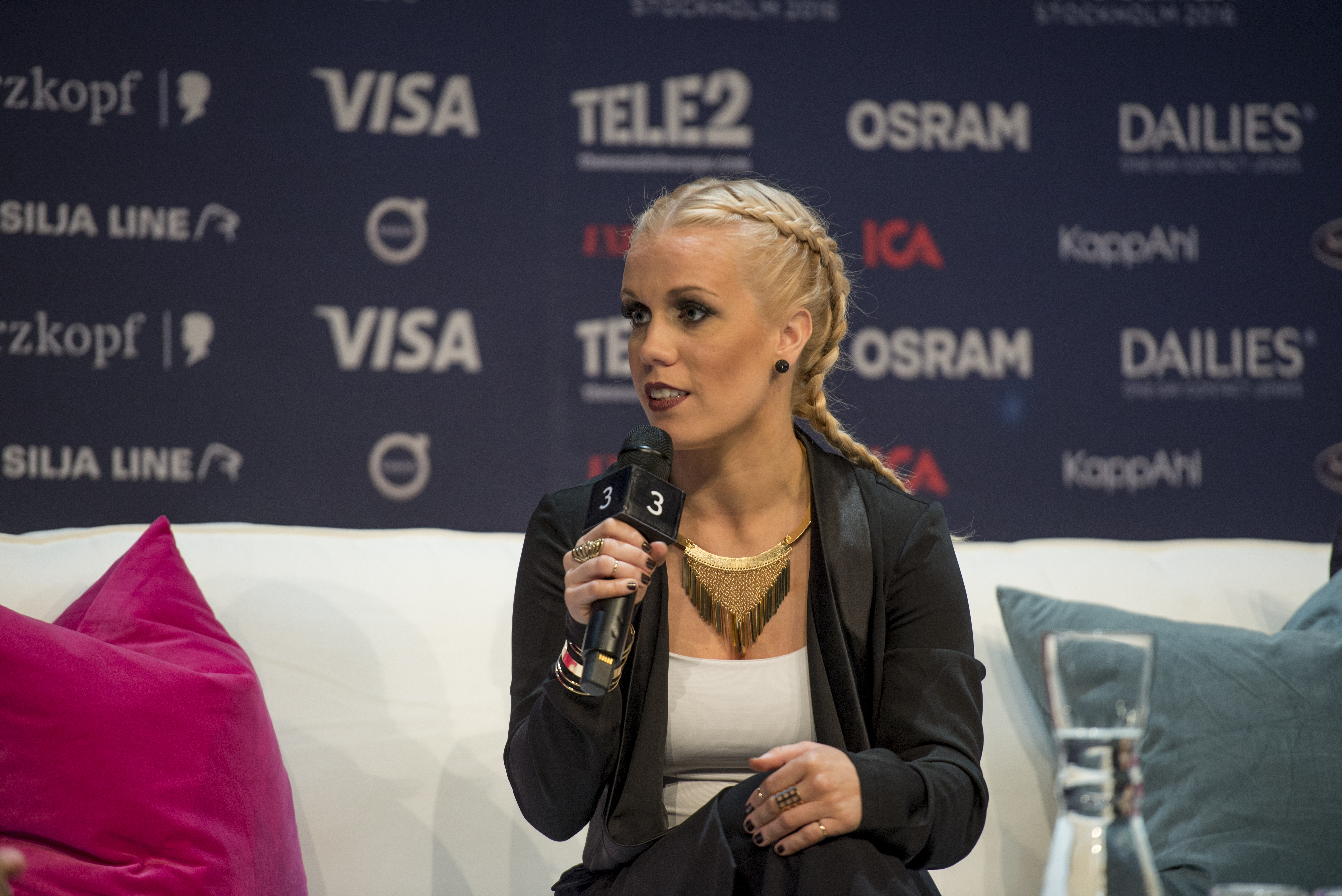 Greta Salóme at a Meet & Greet during the Eurovision Song Contest 2016 in Stockholm. (Help translate this text)